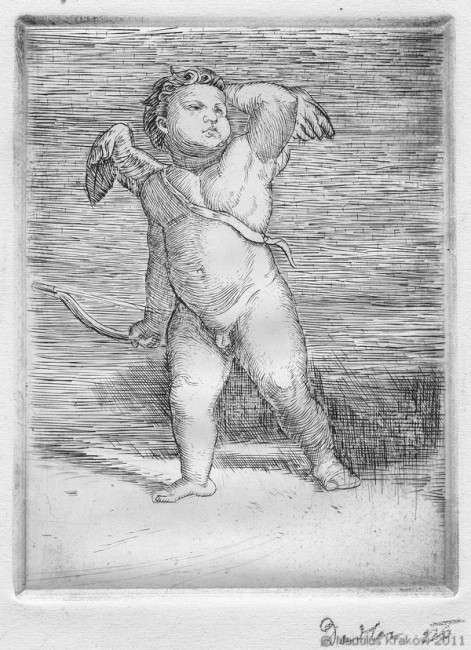 Dadlez Paweł Marian. Amorek, 1926